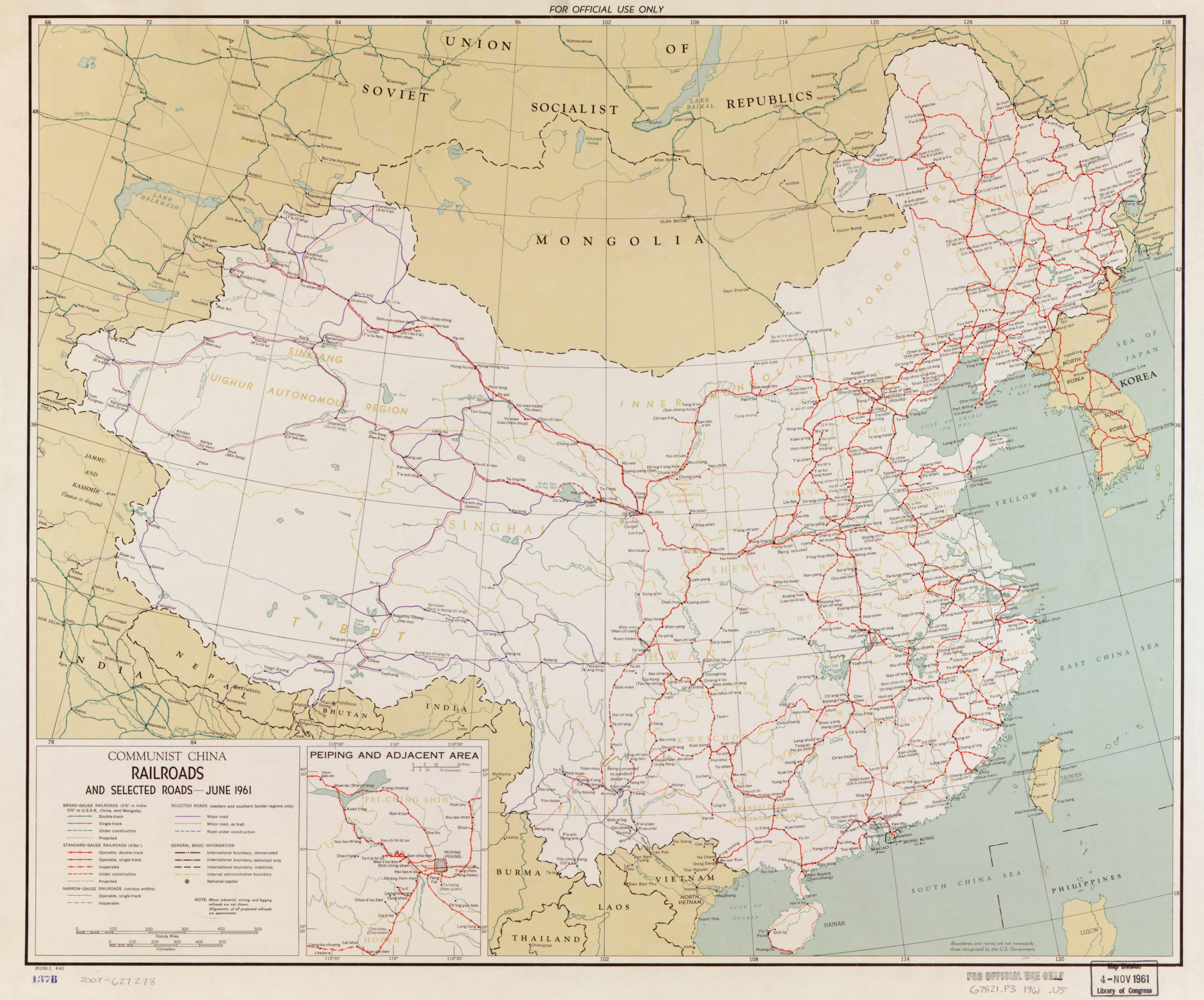 Communist China railroads and selected roads, June 1961. Includes inset of "Peiping and adjacent area." Scale [ca. 1:9,000,000] (E 660--E 1380/N 540--N 180).